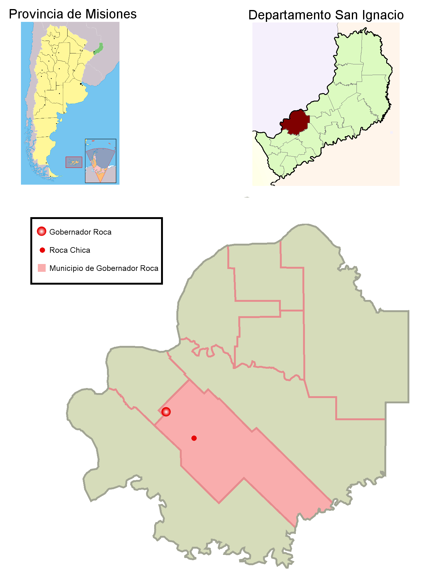 A map showing municipio of Gobernador Roca in San Ignacio departament, Misiones province, Argentina. Also shows Gobernador Roca town location and Roca Chica town location. Created with GIMP.